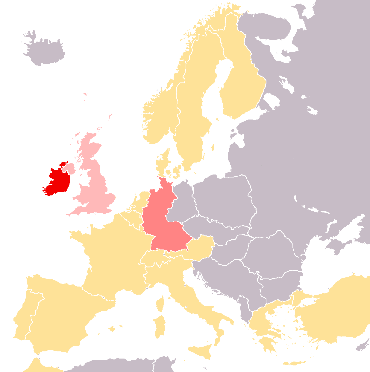 Map of Eurovision 1980